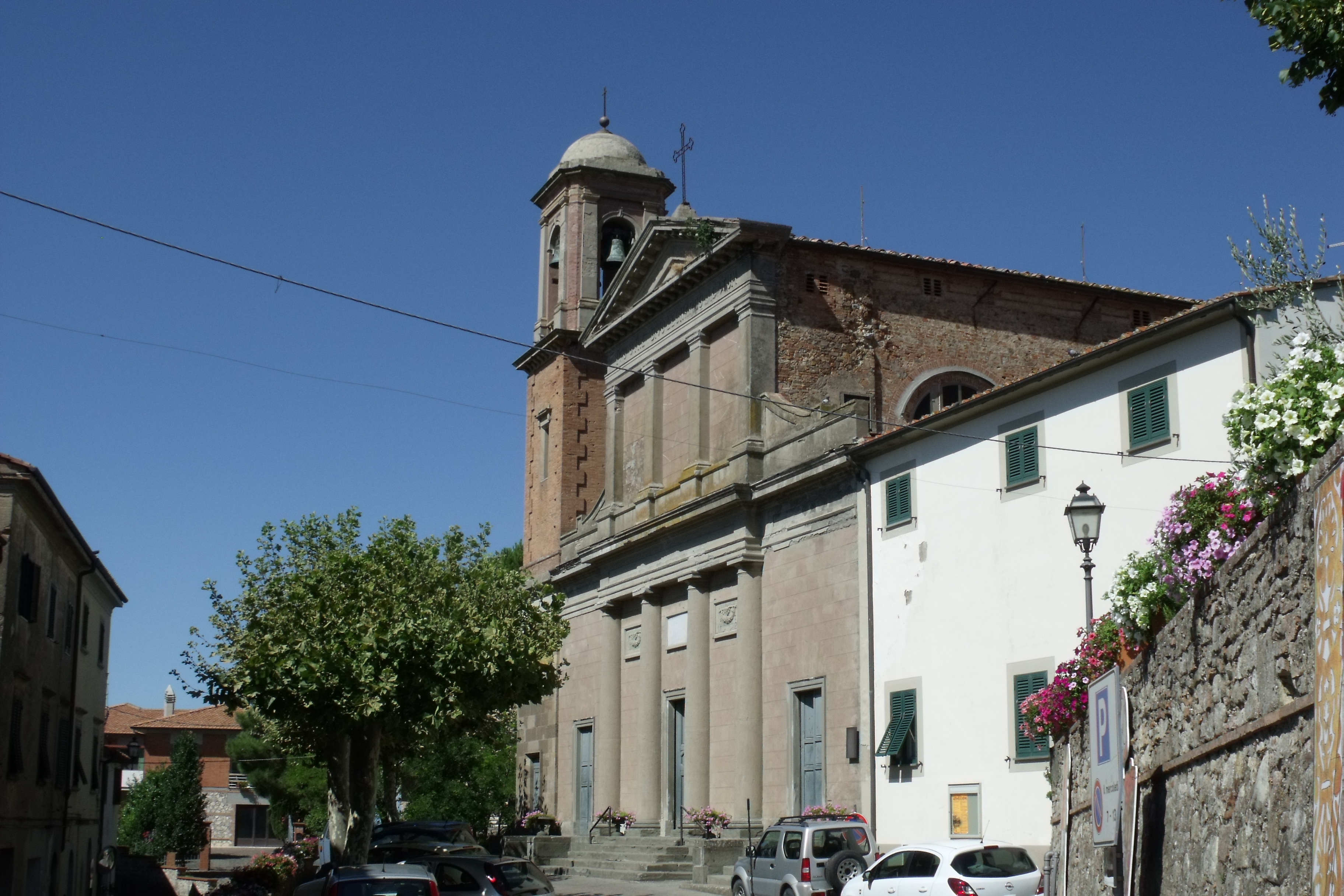 Church Chiesa di San Leonardo in Lajatico, Province of Pisa, Tuscany, Italy